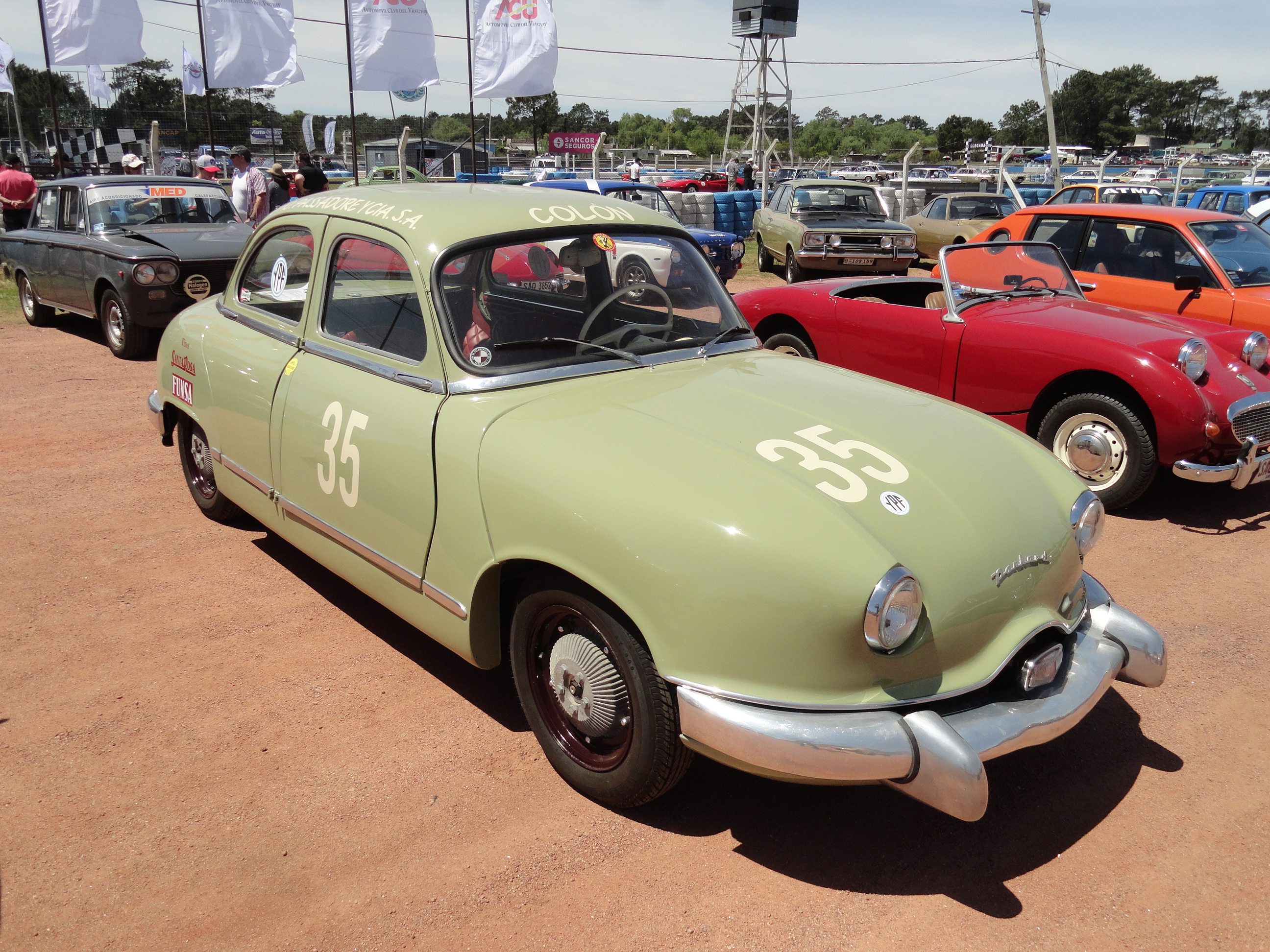 Panhard Dyna Z of Jorge Mutio at the Festival VBF 2019, held at the Autódromo Víctor Borrat Fabini in El Pinar (Uruguay).